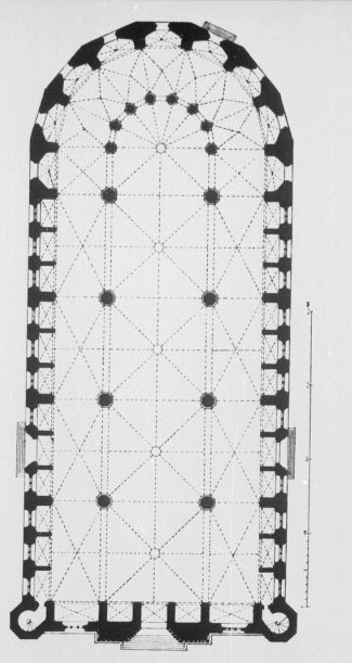 Plan of Santa Maria del Mar, Barcelona